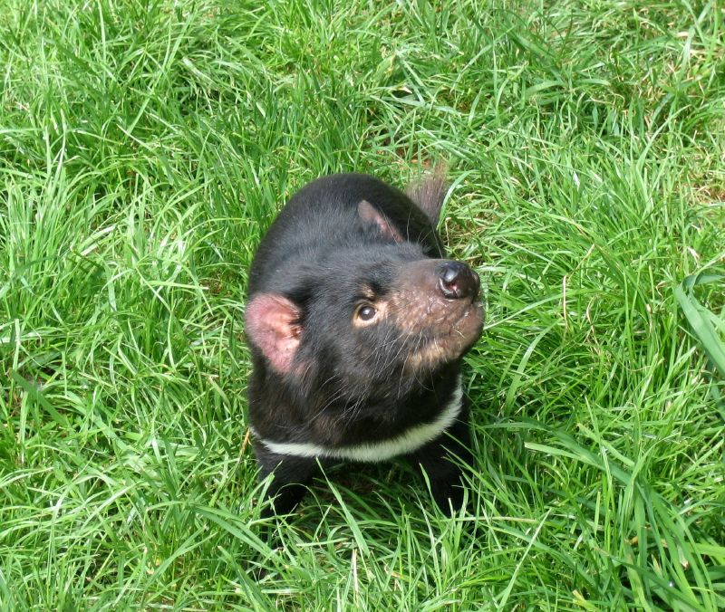 Tasmanian Devil at the Tasmanian Devil Conservation Park in Taranna.